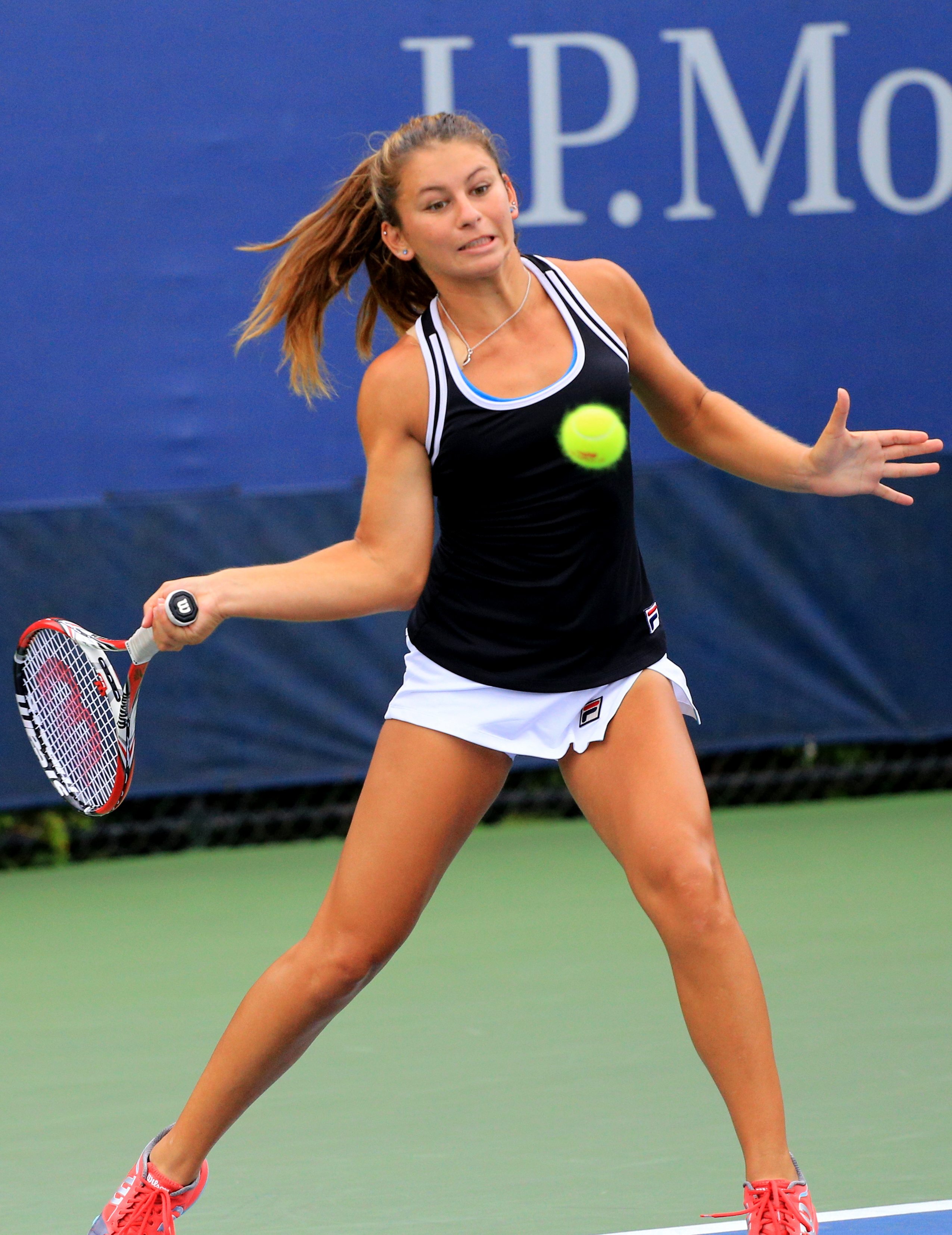 Usue Maitane Arconada at the 2015 US Junior Open